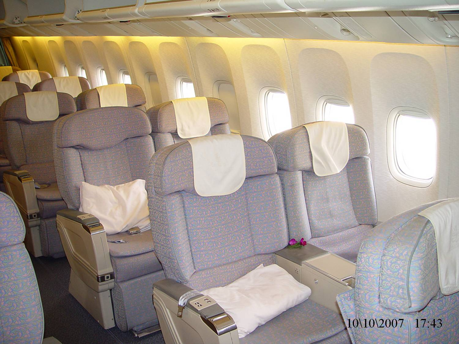 Old Bussiness Class Cabin On Emirates Boeing 777-200.